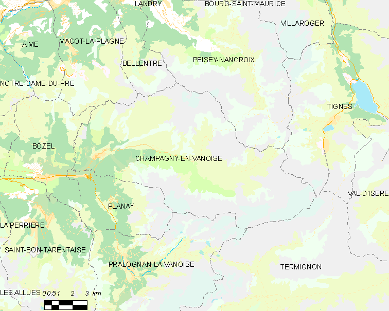 Map of French municipality